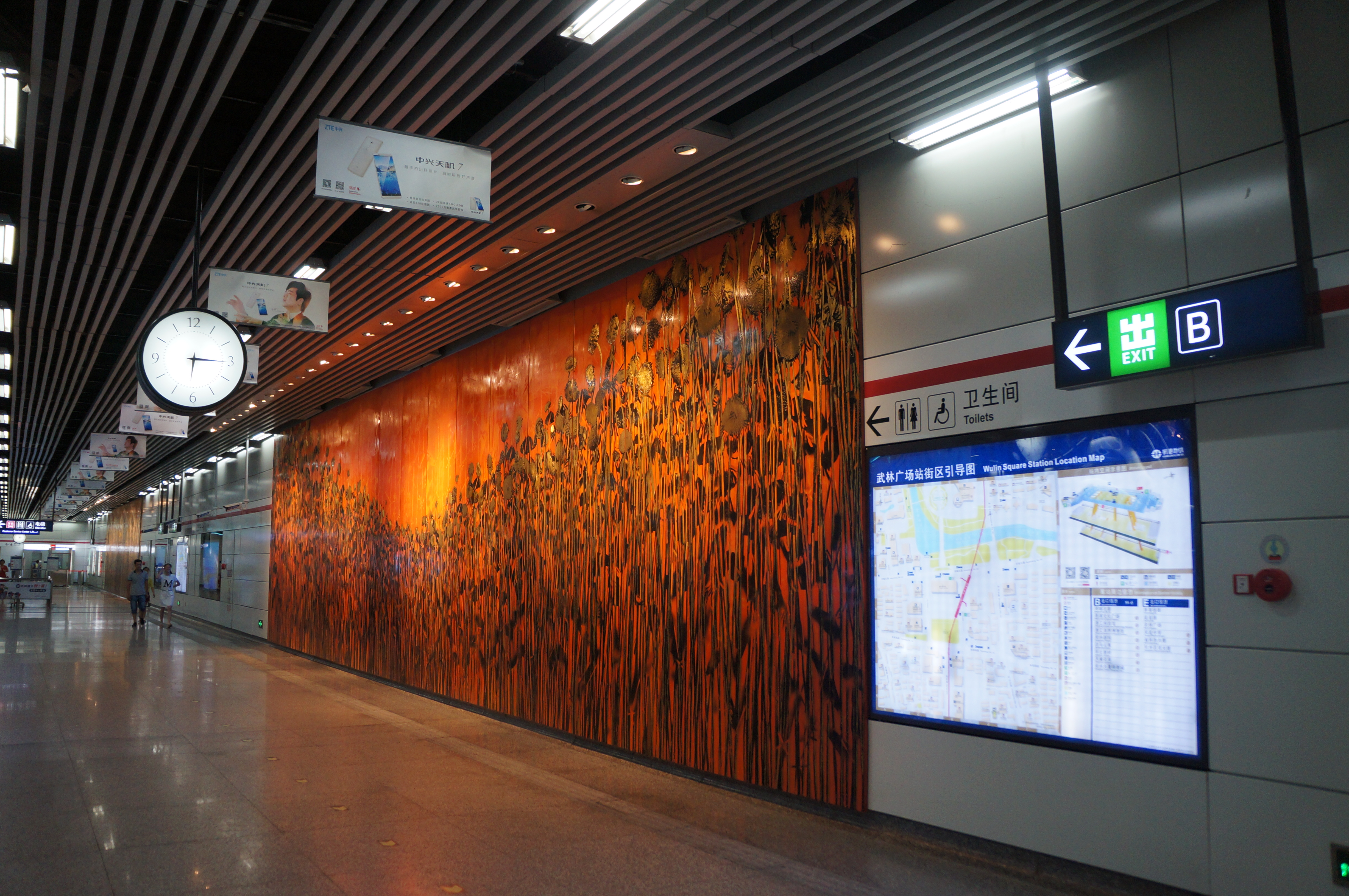 201607 Fine Art Work in the concourse of Wulin Square Station